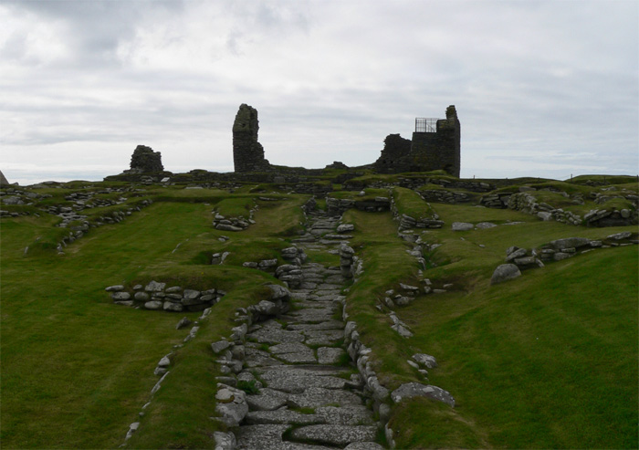 Jarlshof, Shetland, Scotland - byre entrance for Viking settlement